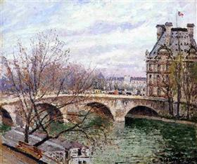 Work by Camille Pissarro